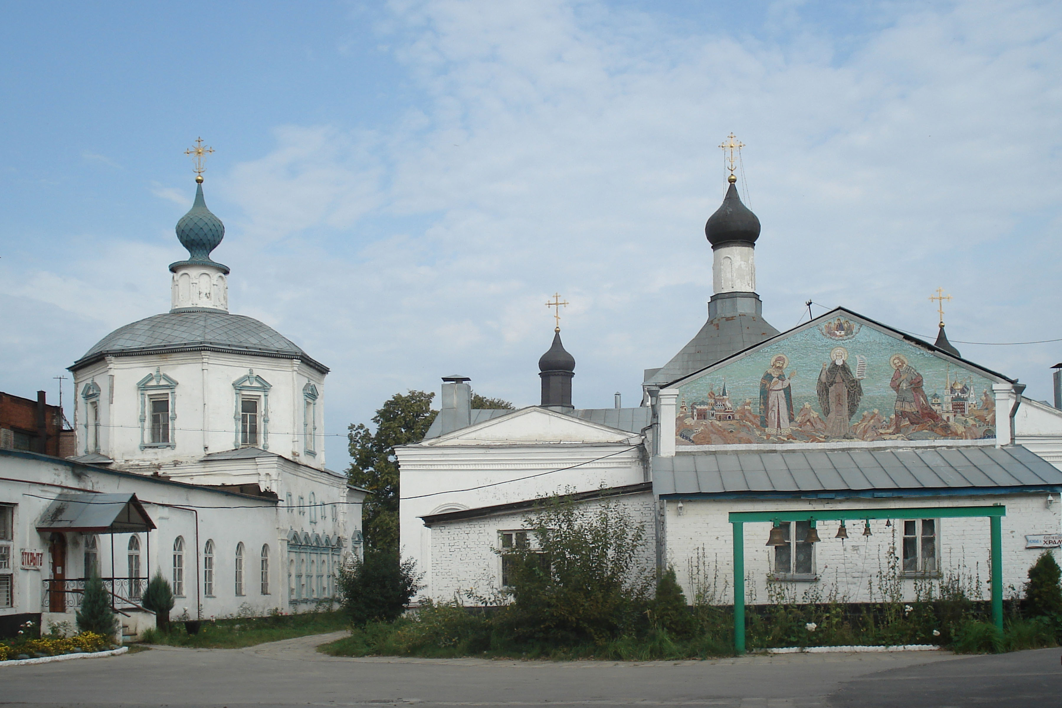 Trinity monastery. Ryazan, Russia.